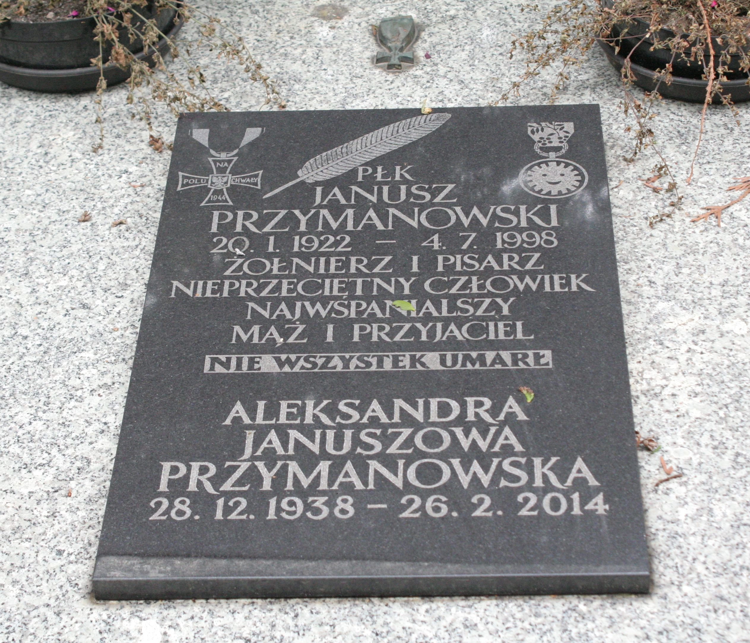 Grave of Janusz Przymanowski at Warsaw Military Cemetery.